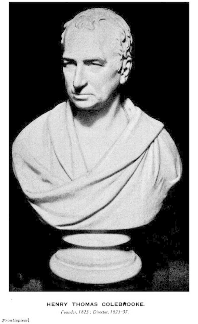 Anonymous photo of a bust of the Sanskrit scholar Henry Thomas Colebrooke created by Henry Weekes in 1837. The bust was a reproduction of an earlier bust of Colebrooke produced in 1820 by Sir Francis Chantrey. The photo appeared as the frontispiece to Centenary Volume of the Royal Asiatic Society of Great Britain and Ireland 1823-1923, published in 1923.